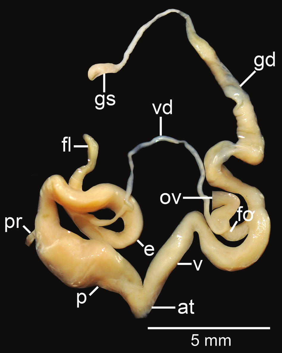 Photo of a reproductive system of Amphidromus flavus from Ban Na Deauy, Luang Phrabang, Laos (CUMZ 7027). Scale bar is 5 mm.